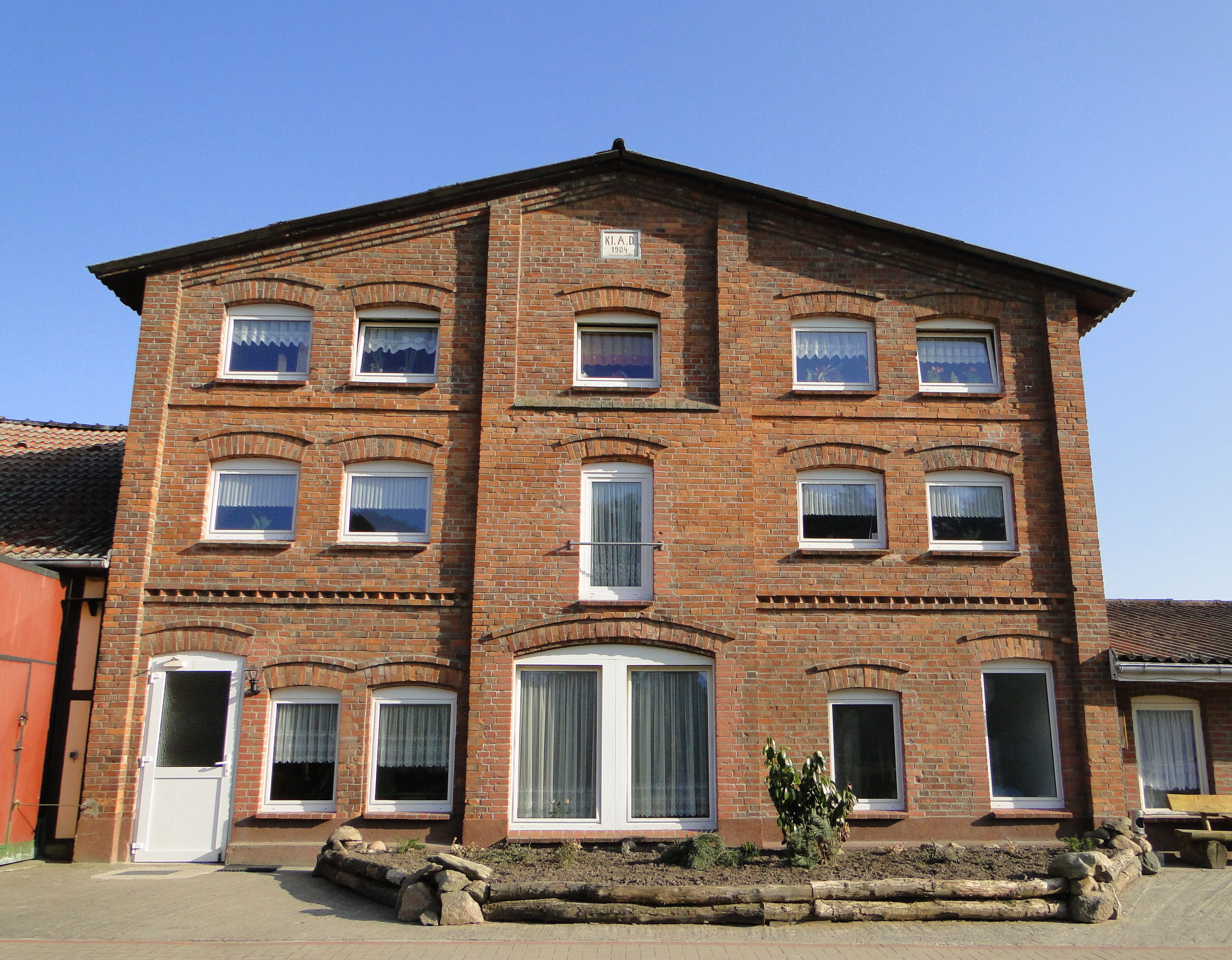 Warehouse at manor in Bossow, district Güstrow, Mecklenburg-Vorpommern, Germany